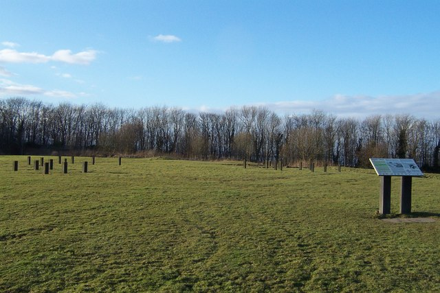 Kinneil Fortlet on the Antonine Wall The line of the wall is east-west following the trees. The wooden posts mark the outline of a fortlet identified by cropmarks in aerial photographs and excavated in November 1978. Further details and an aerial photo are published under the aegis of Historic Scotland in "The Antonine Wall" by David J Breeze ISBN 0 85976 655 1